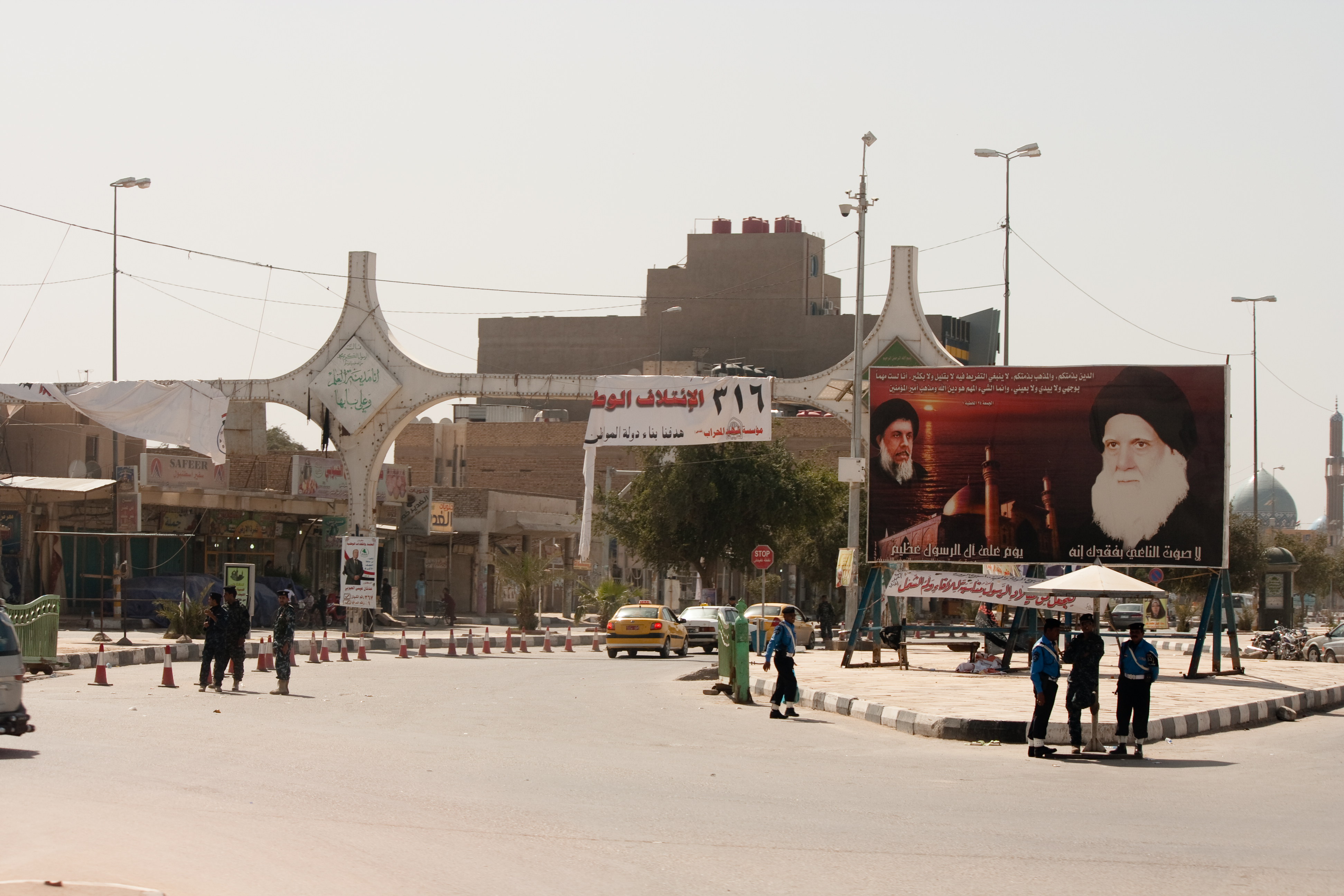 A large campaign banner in Najaf.